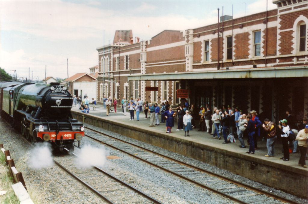 LNER 4472 Flying Scotsman passes along the standard gauge line to the east of Platform 2 at Seymour railway station, Victoria, 1989